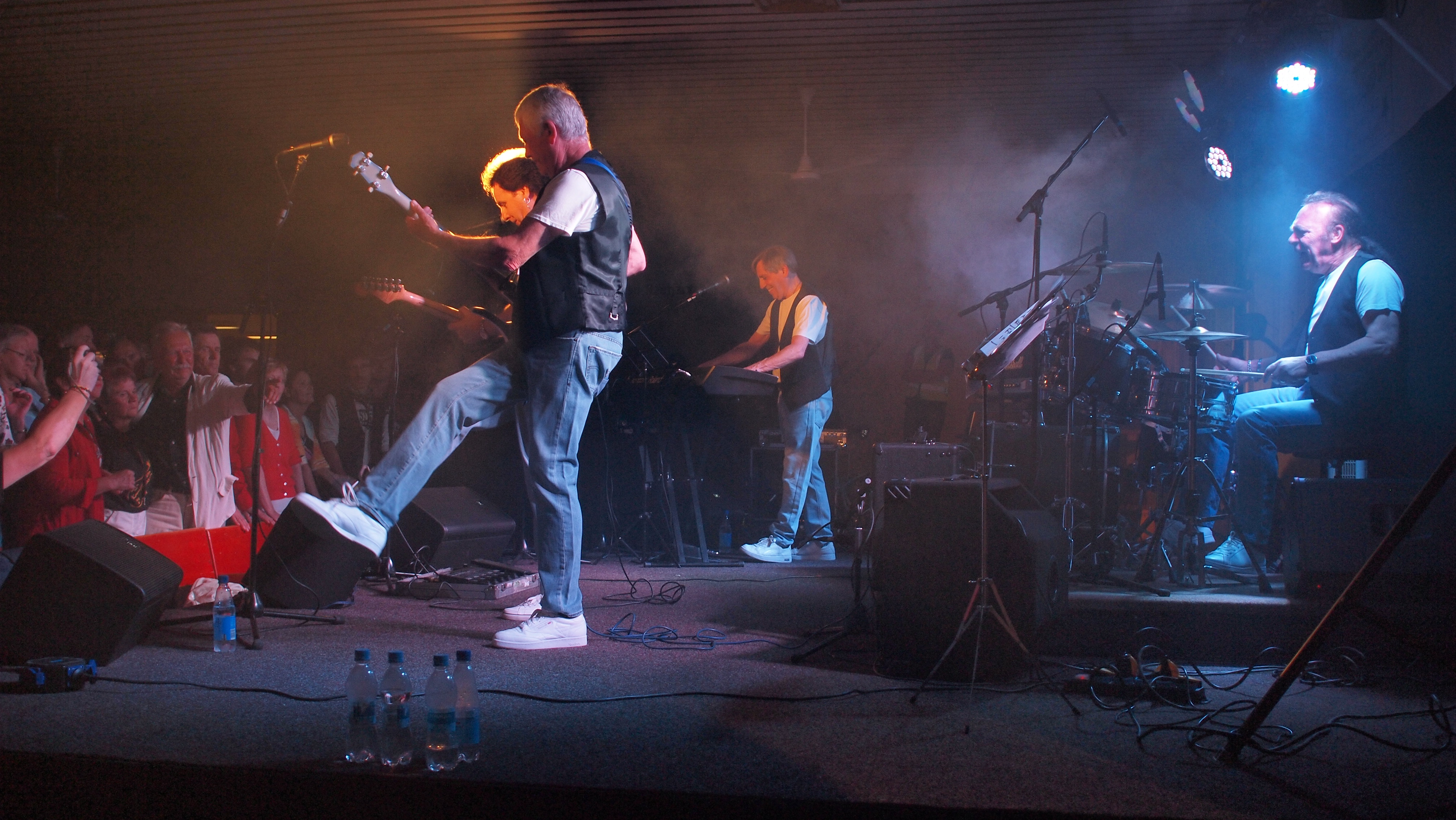 The Swinging Blue Jeans performing at Kisapirtti in Parikkala, Finland July 13th 2013.